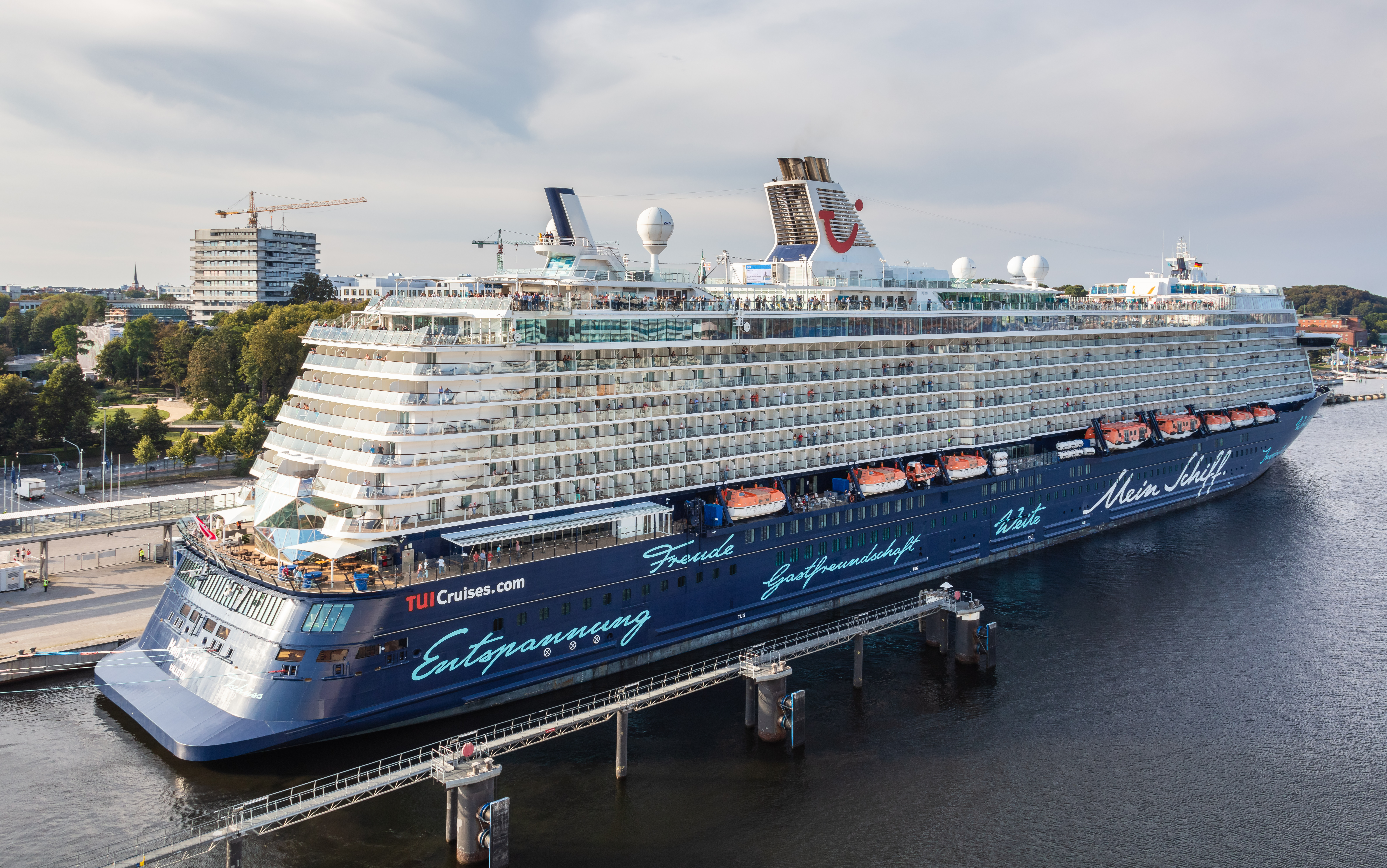 Ship Mein Schiff 4, Kiel, Germany